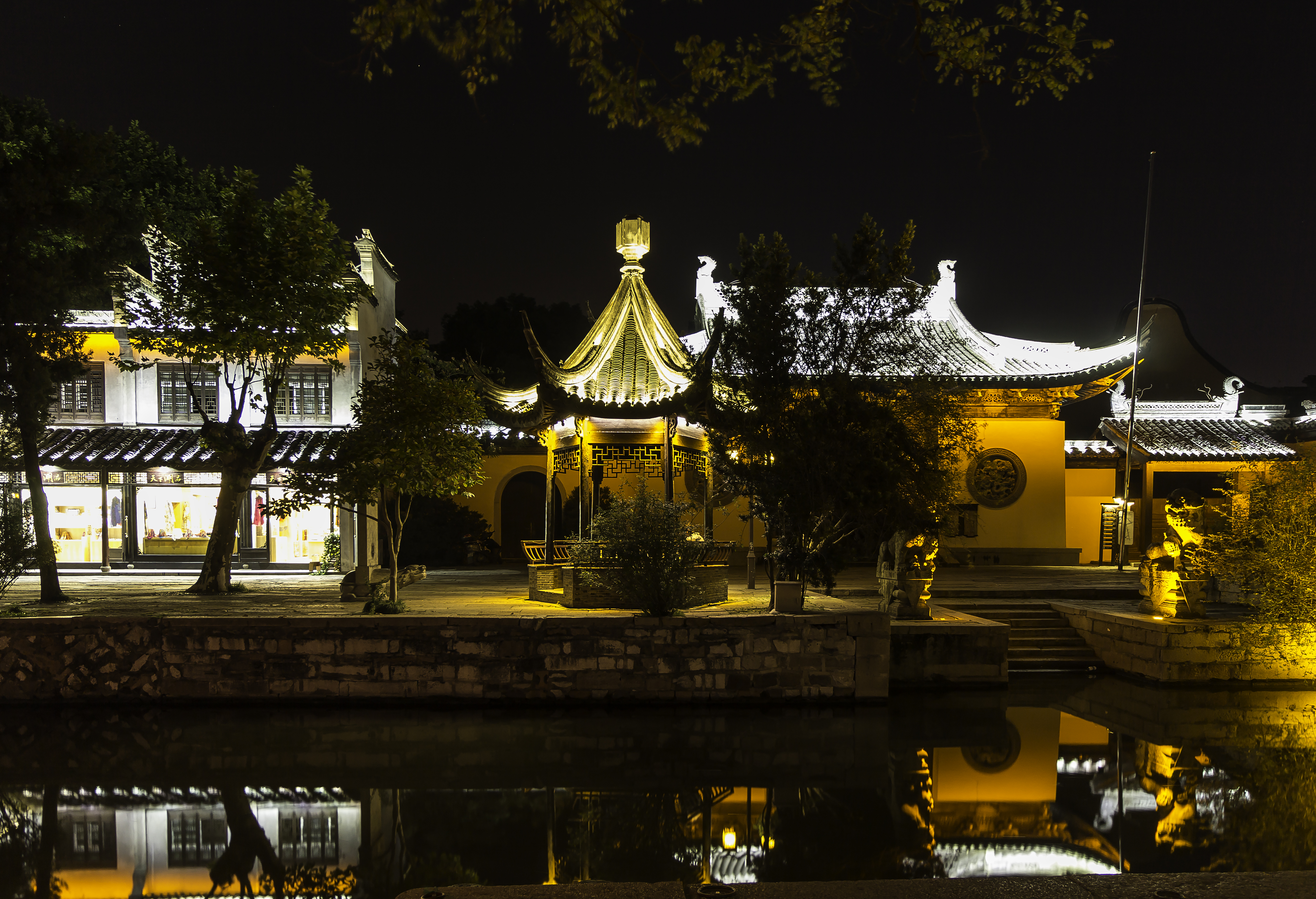 Guanghuigong Taoist Temple at night in Nanxun, Ancient water town